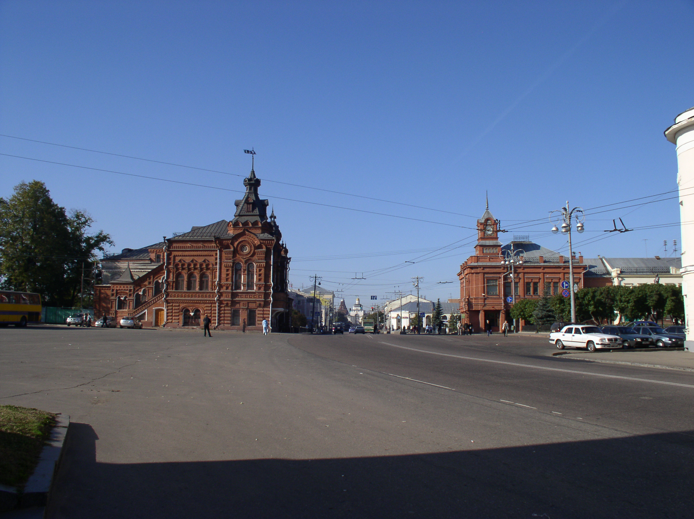 Vladimir, Russia.